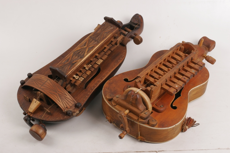 Hurdy Gurdy